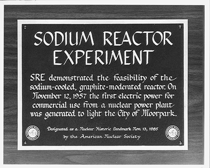 The American Nuclear Society designated the Sodium Reactor Experiment (SRE) a Nuclear Historical Landmark on November 13, 1985. Site located at the Category:Santa Susana Field Laboratory in the Simi Hills of Southern California. The Sodium Reactor experienced a significant partial meltdown in 1959, and others in the early 1960s. Currently the former site (SRE bldg. demolished 2000s) is part of a DOE-Boeing Superfund Site soil/groundwater cleanup project.